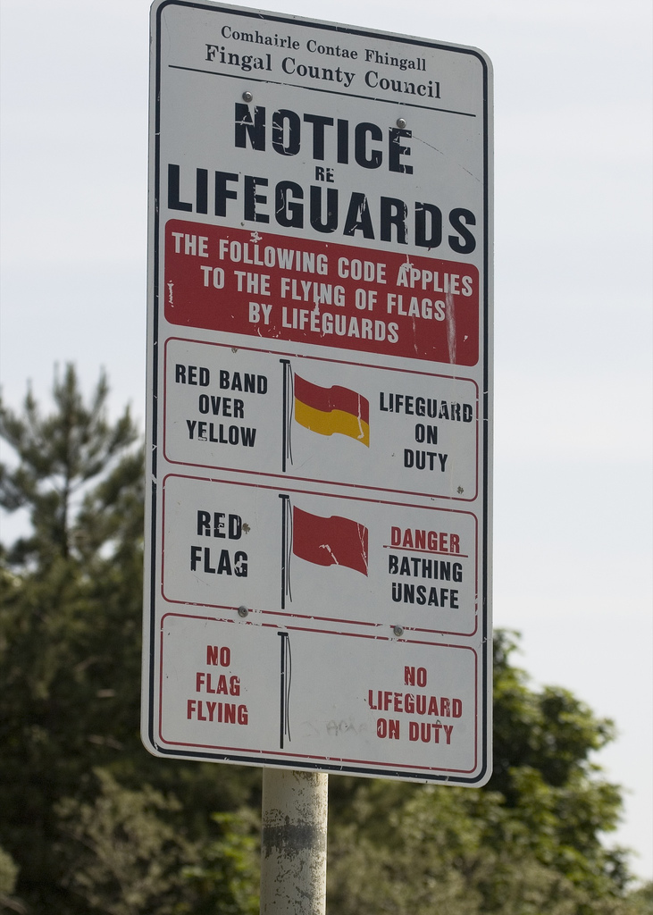 Notice of Lifeguard flags. Malahide (near Dublin), Ireland